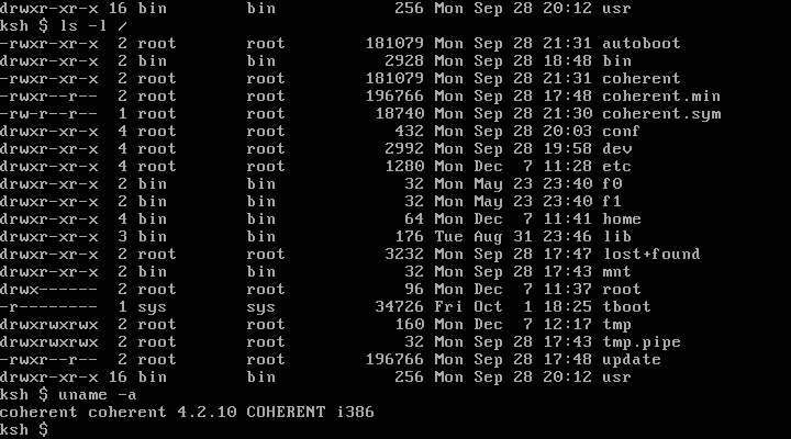 Coherent 4.2.10 for i386 running in QEMU with qemu-system-i386. Listing the root directory and running "uname -a" for the OS name and details.